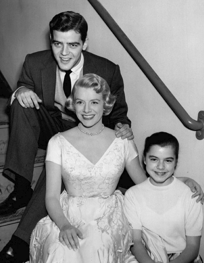 Photo of Nick, Rosemary and Gail Clooney from Rosemary's television program The Lux Show. Younger sister Gail did not go into show business.